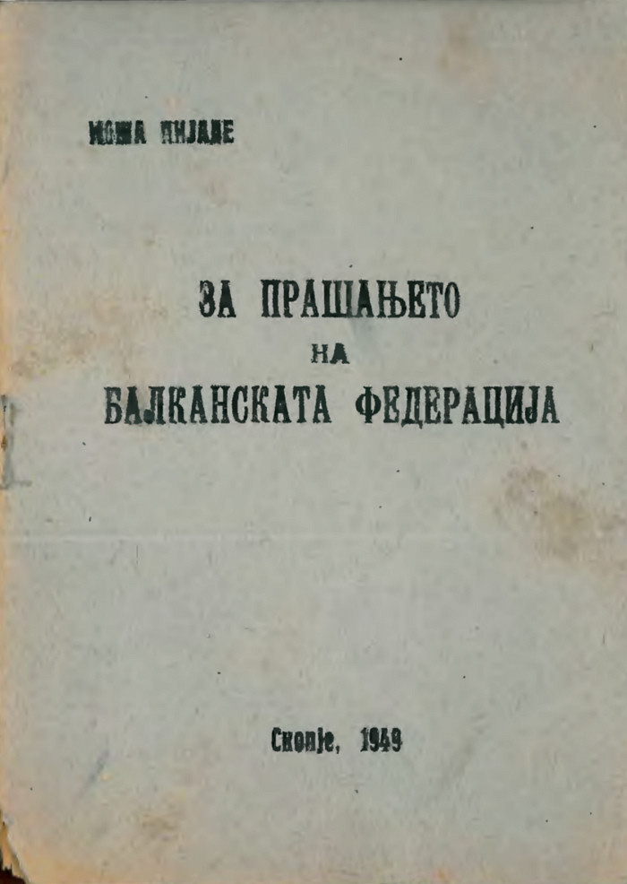 Mosa Pijade's book "On the Question of Balkan Federation"